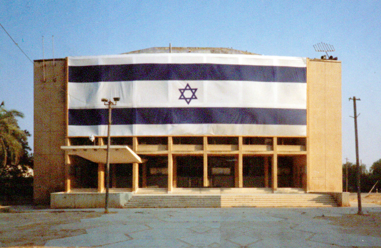 Cinema keren front fund the State of Israel Flag